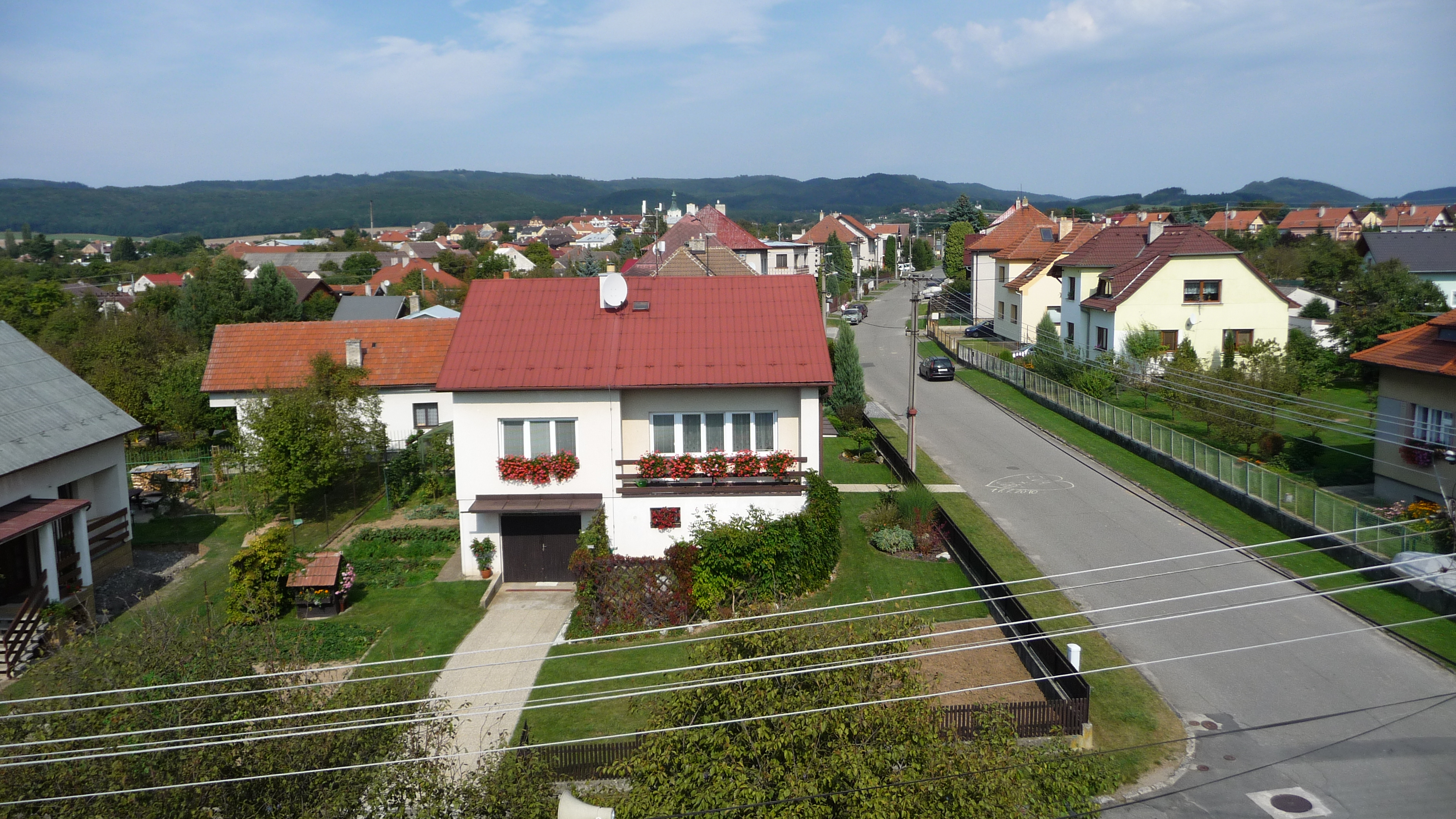 View from Dolní Ves in Fryšták to Přehradní street